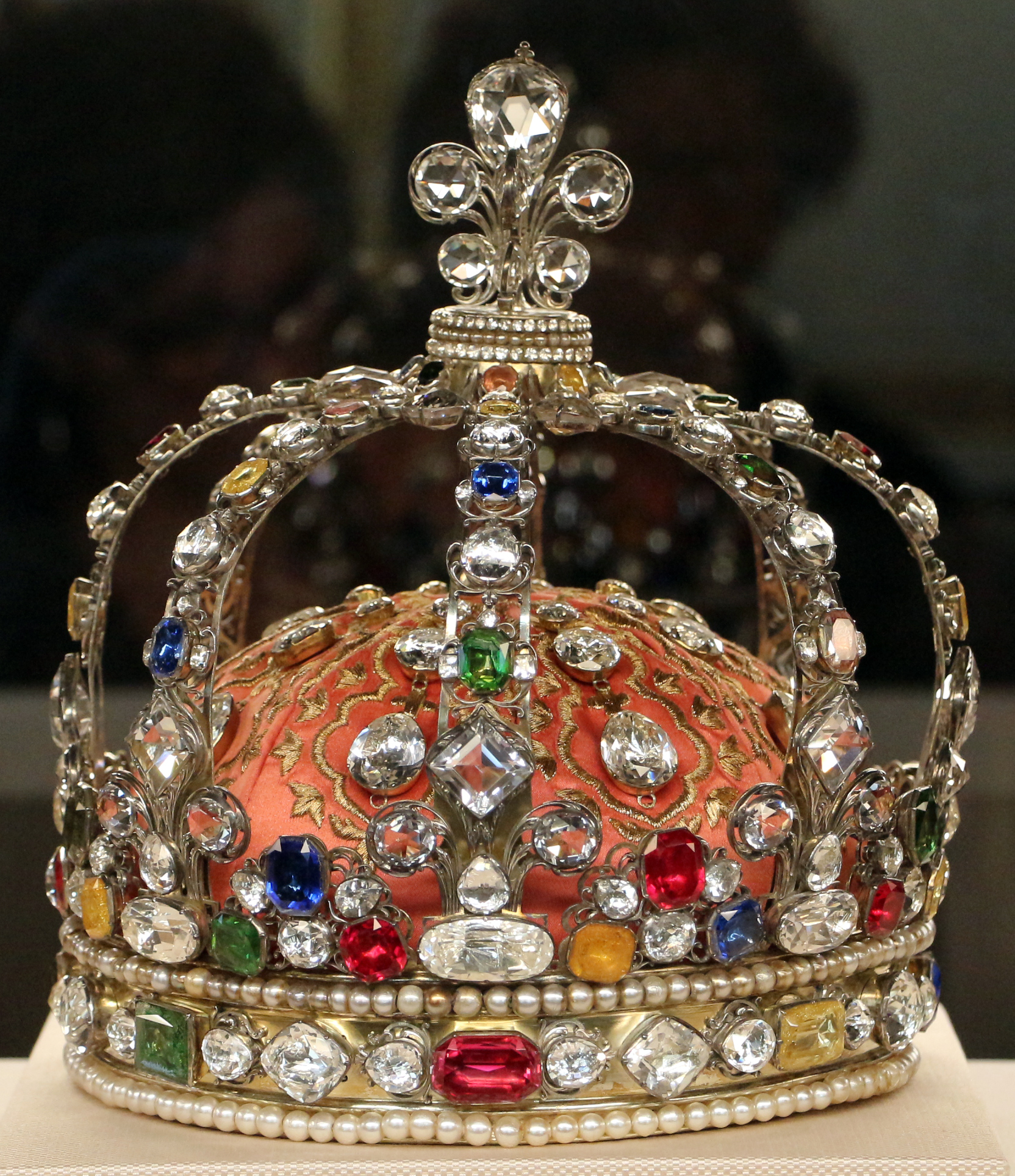 Crown jewels of France (gallery of Apollo)